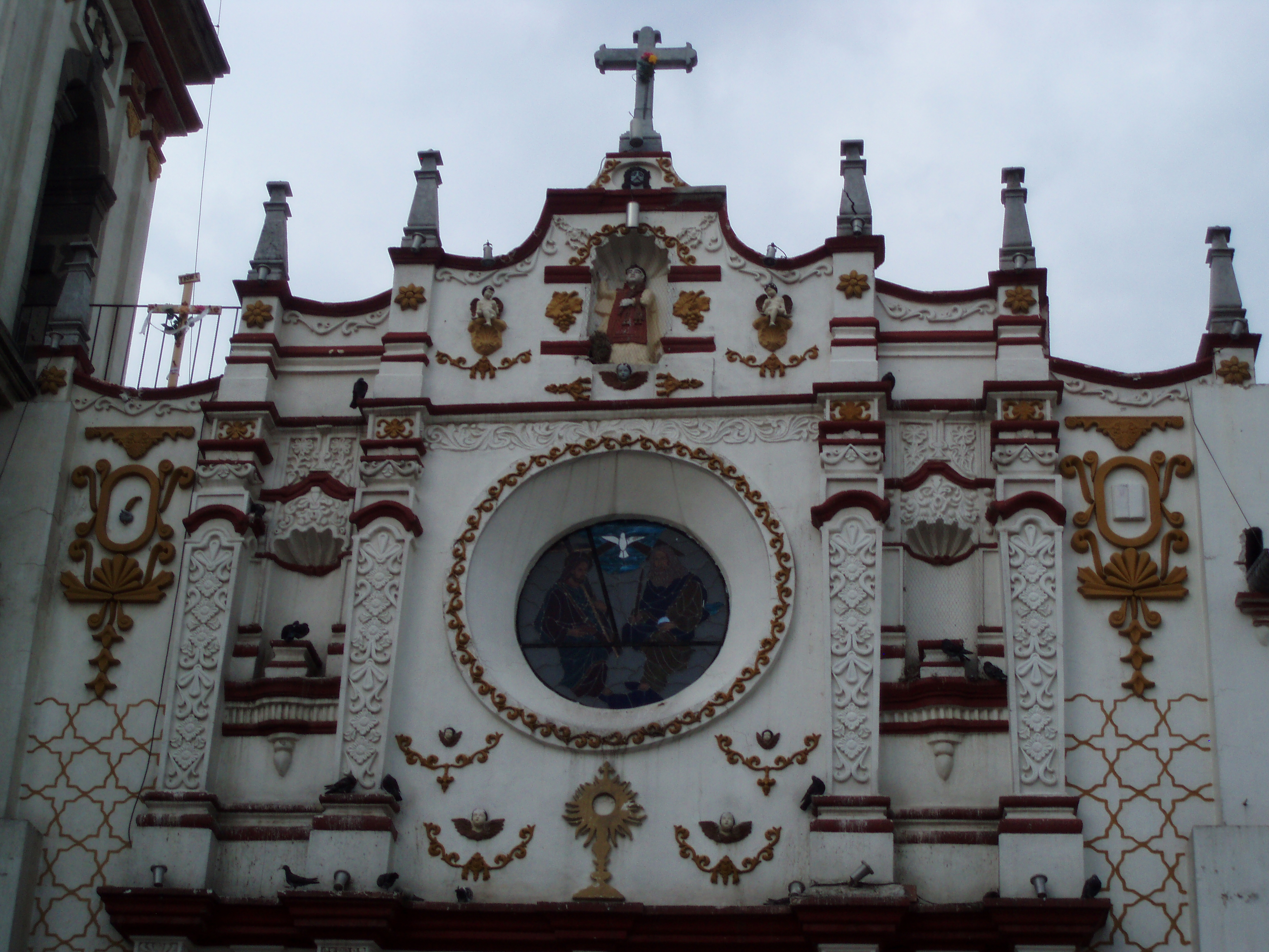 SAN VICENTE CHICOLOAPAN REMATE FRONTAL.